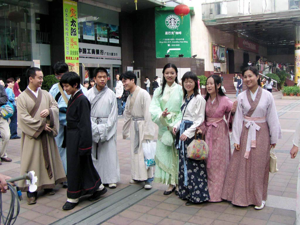 In recent years, young Chinese are trying to revive traditional Han Chinese clothing (汉服运动) using internet-based forums. A few Han Chinese clothing gatherings both within China and overseas were organized. Han clothing was lost for 267 years as a result of the Manchu subjugation of China, which lasted from 1644 to 1911.